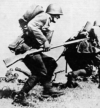 Polish infantry in attack 1939